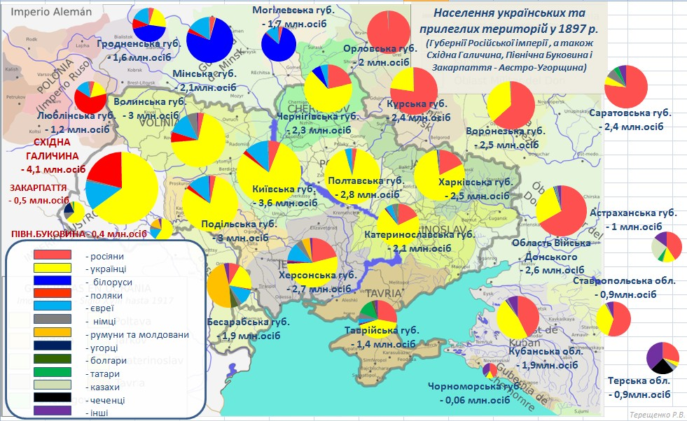 Ethnic map of Ukraine in 1897